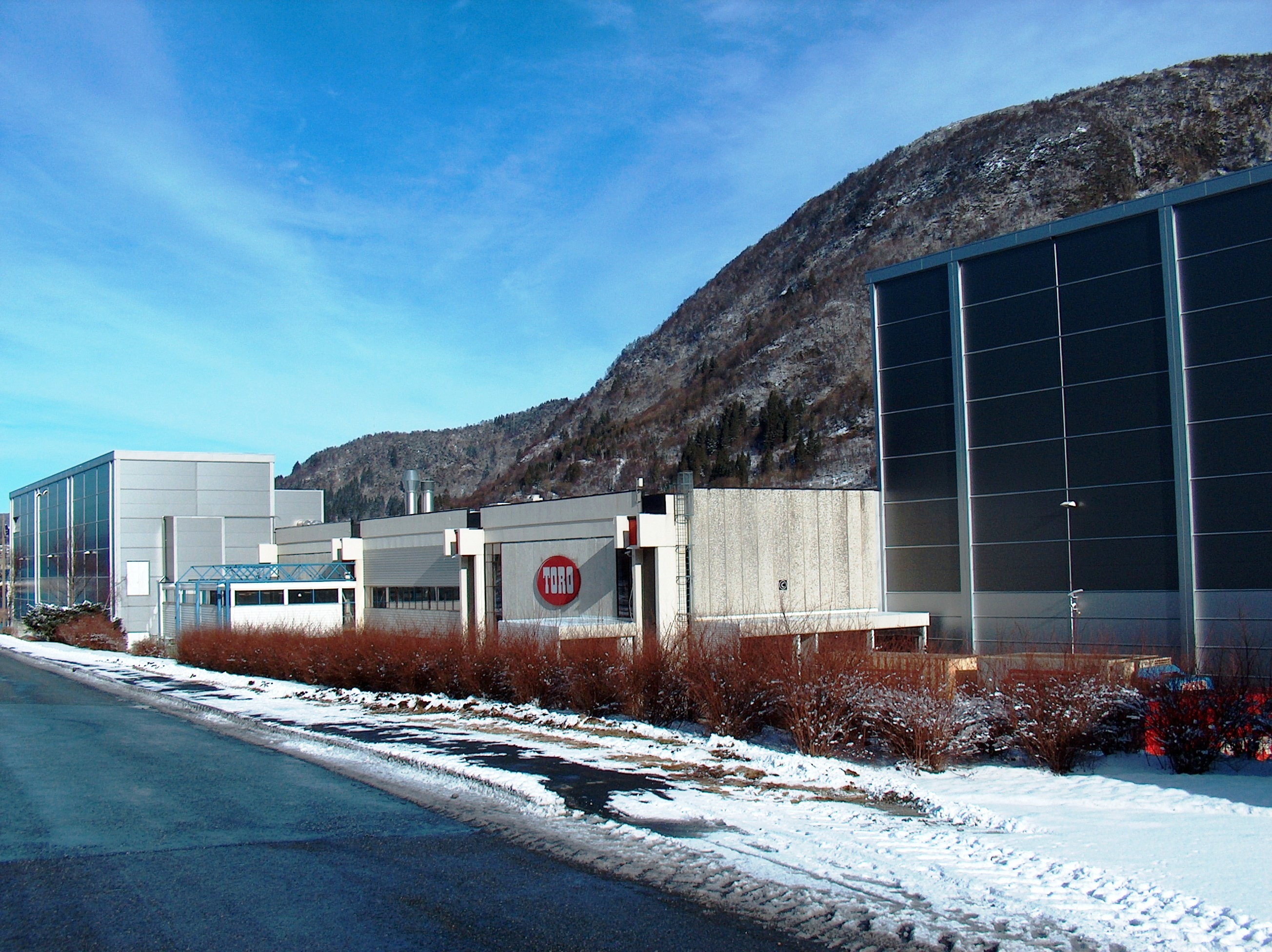 Toro